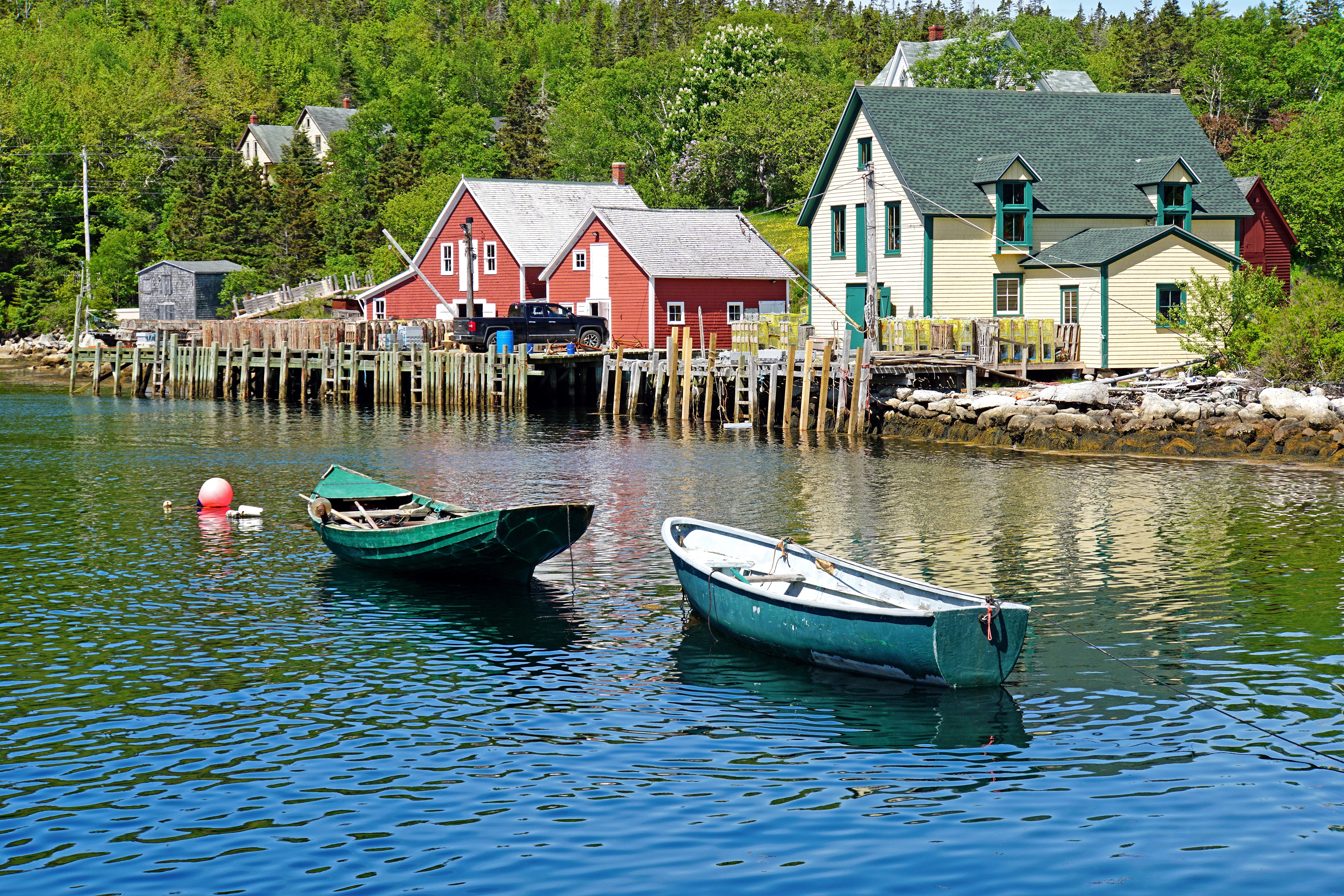 PLEASE, NO invitations or self promotions, THEY WILL BE DELETED. My photos are FREE to use, just give me credit and it would be nice if you let me know, thanks. Northwest Cove is a community and cove on the Aspotogan Peninsula that is surrounded by St. Margaret's Bay. Several scenes from the television show Haven were shot here.